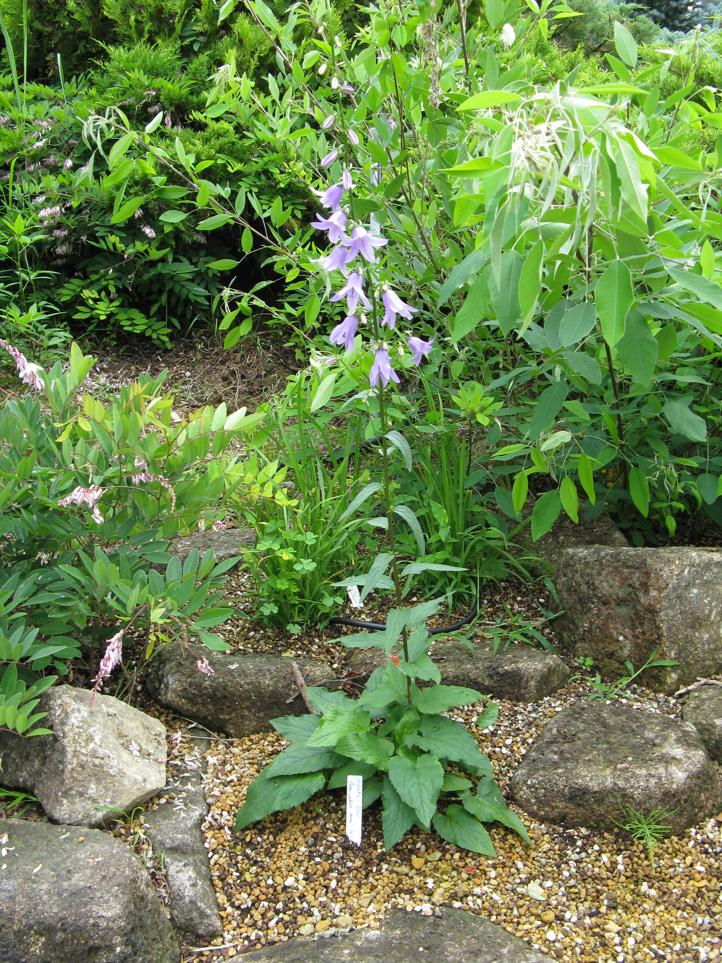 Scientific name Adenophora pereskiaefolia